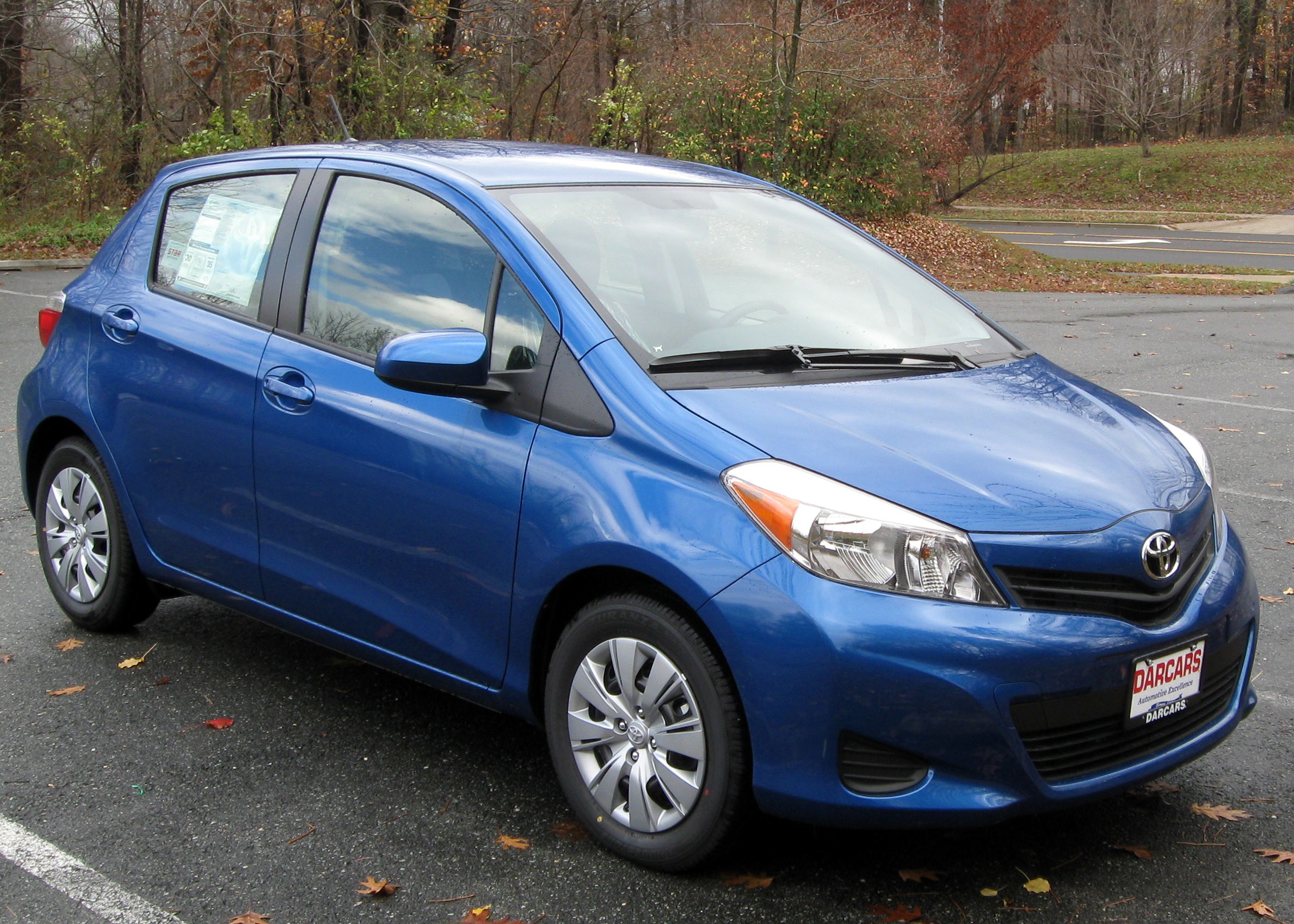 2012 Toyota Yaris photographed in Silver Spring, Maryland, USA.